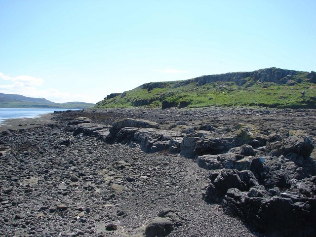 Geological dyke The basalt dyke runs along the shore of the east coast of Isay, near the Isle of Skye in Scotland, but is clearly seen at the northern tip of the island